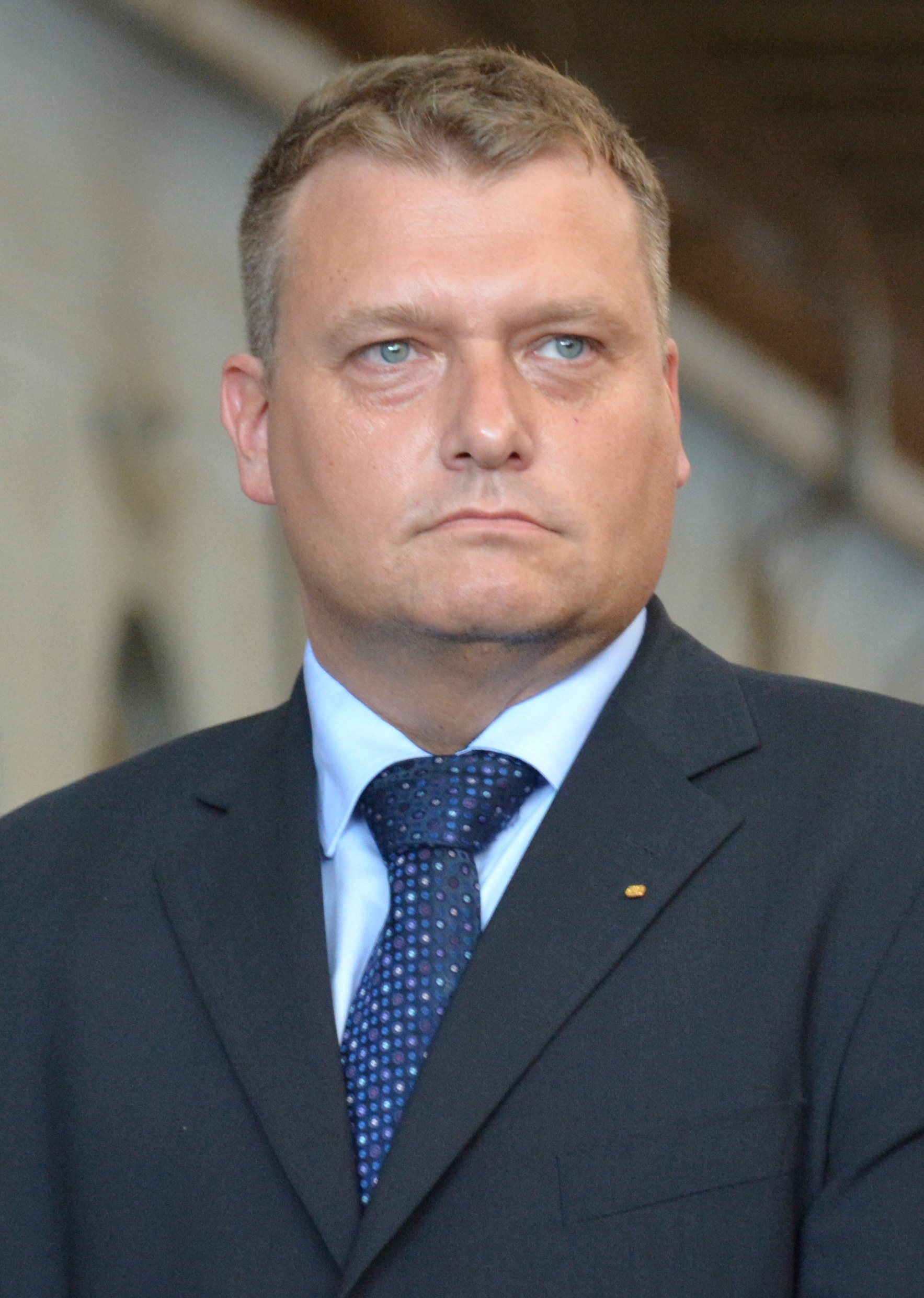 Pavel Krtek, Managing Director and Chairman of the Board of České dráhy